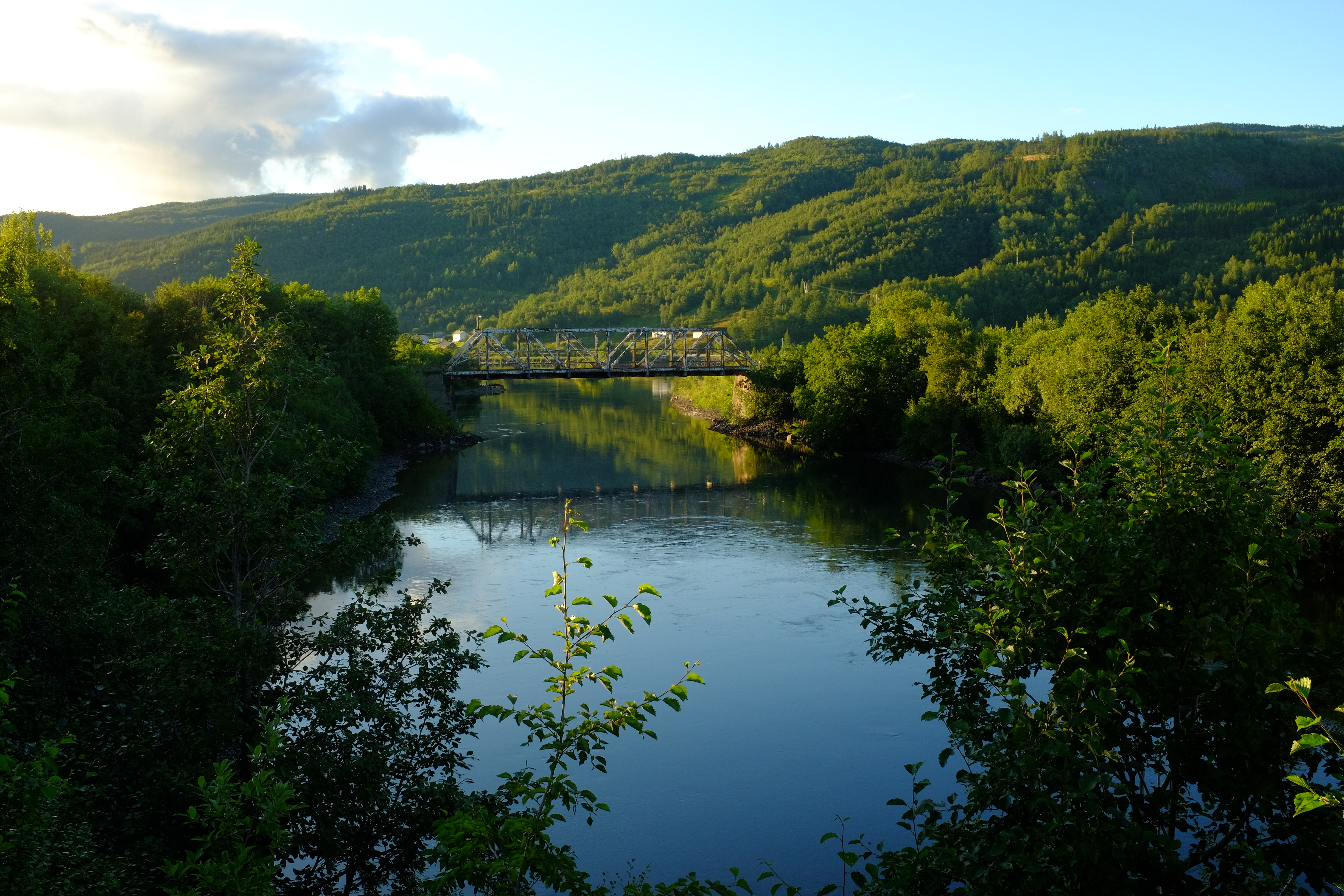 Hjemgamstraumen maelstrom is a 300 meter long river and tidal current in Fauske municipality in Nordland. In addition to the bridge in the picture, it is also a bridge for highway 830.